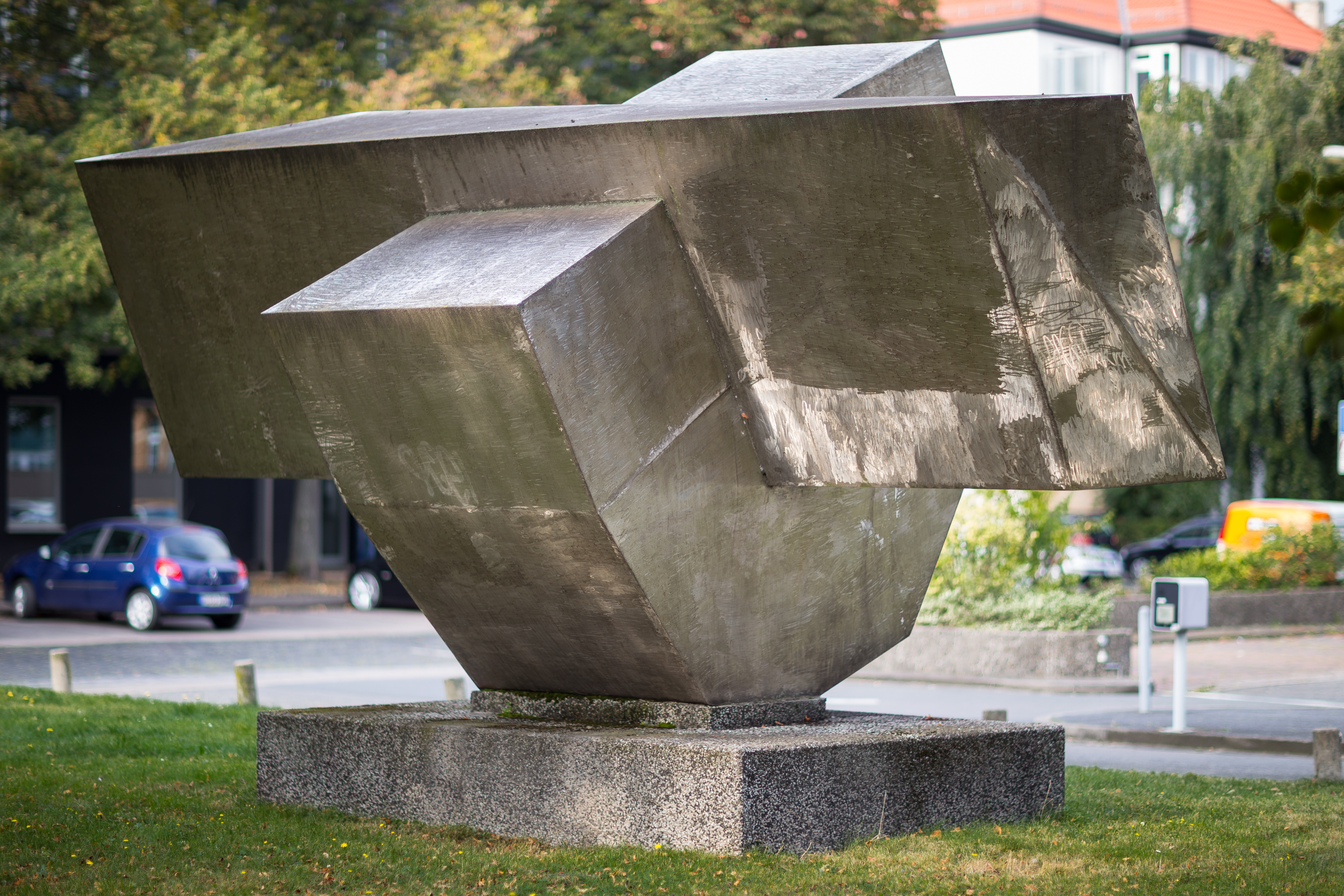 Sculpture "Durchdringung" (or Penetracion, Penetration) by Jorge La Guardia located at Berliner Allee street no. 17 in Hanover, Germany.